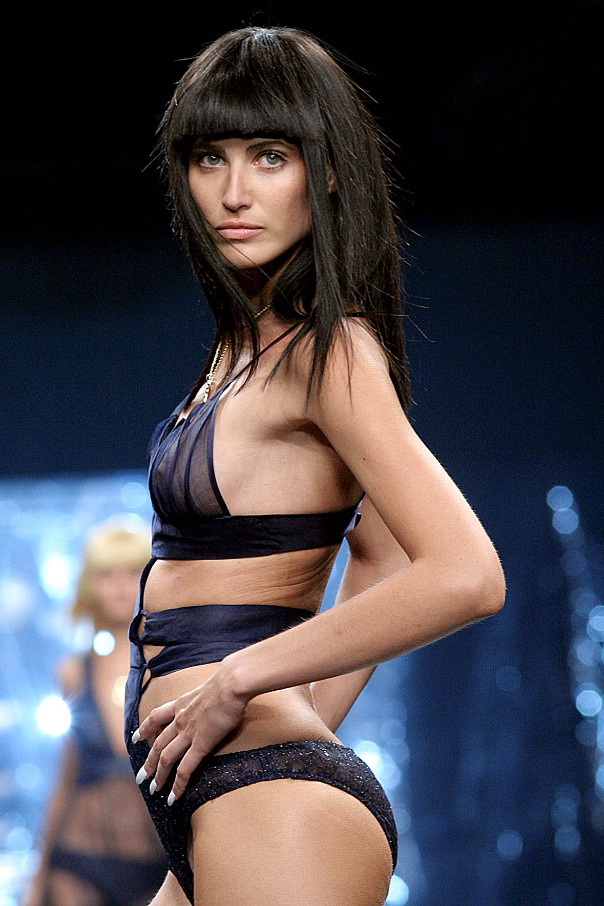 Brazillian model Michelle Alves at the Fashion Rio Inverno 2006.